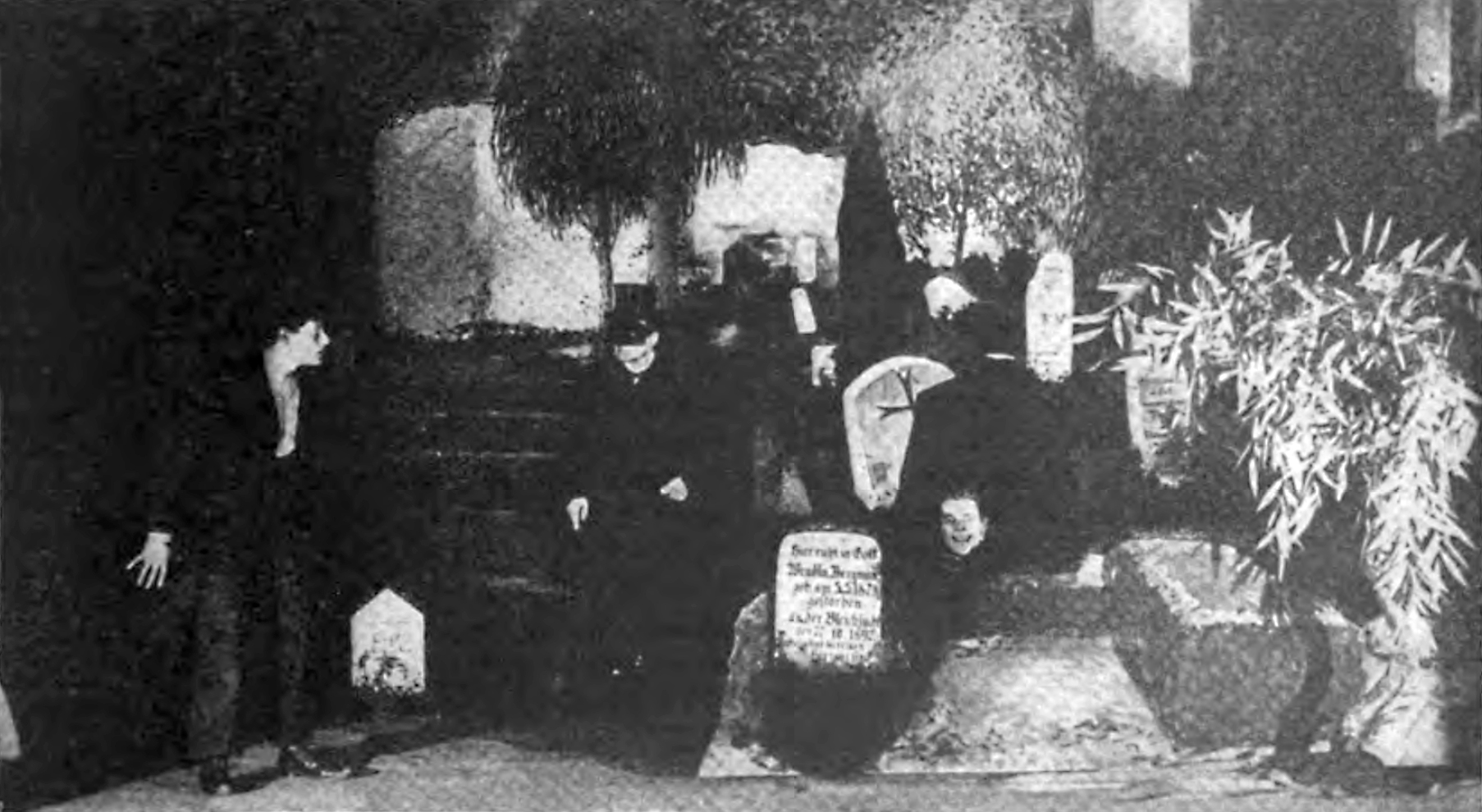 Photograph of the finale of Max Reinhardt's production of Spring Awakening Photograph illustrates the article titled "'Chamber Drama' in Germany" Caption reads as follows: Wedekind's Startling Play, "Spring's Awakening" The finale of one of the most remarkable plays produced at the Kammerspiele in Berlin. The youth with the severed head under his arm is the personification of pessimism and death. The other boy represents humanity curious whether or not it should take the grave-bitten hand of despair. Between them, hidden in mystery, stands the "gentleman of the mask," who is said to symbolize life. Frank Wedekind himself portrayed the Man in the Mask in the Max Reinhardt production.